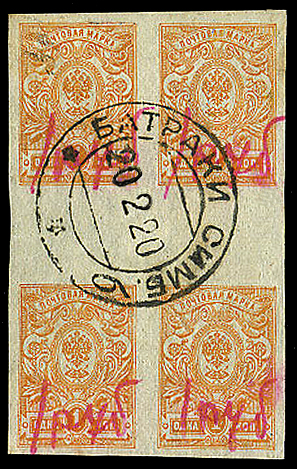 Batraki, provisional stamp, 1920, 1 r./1 k.